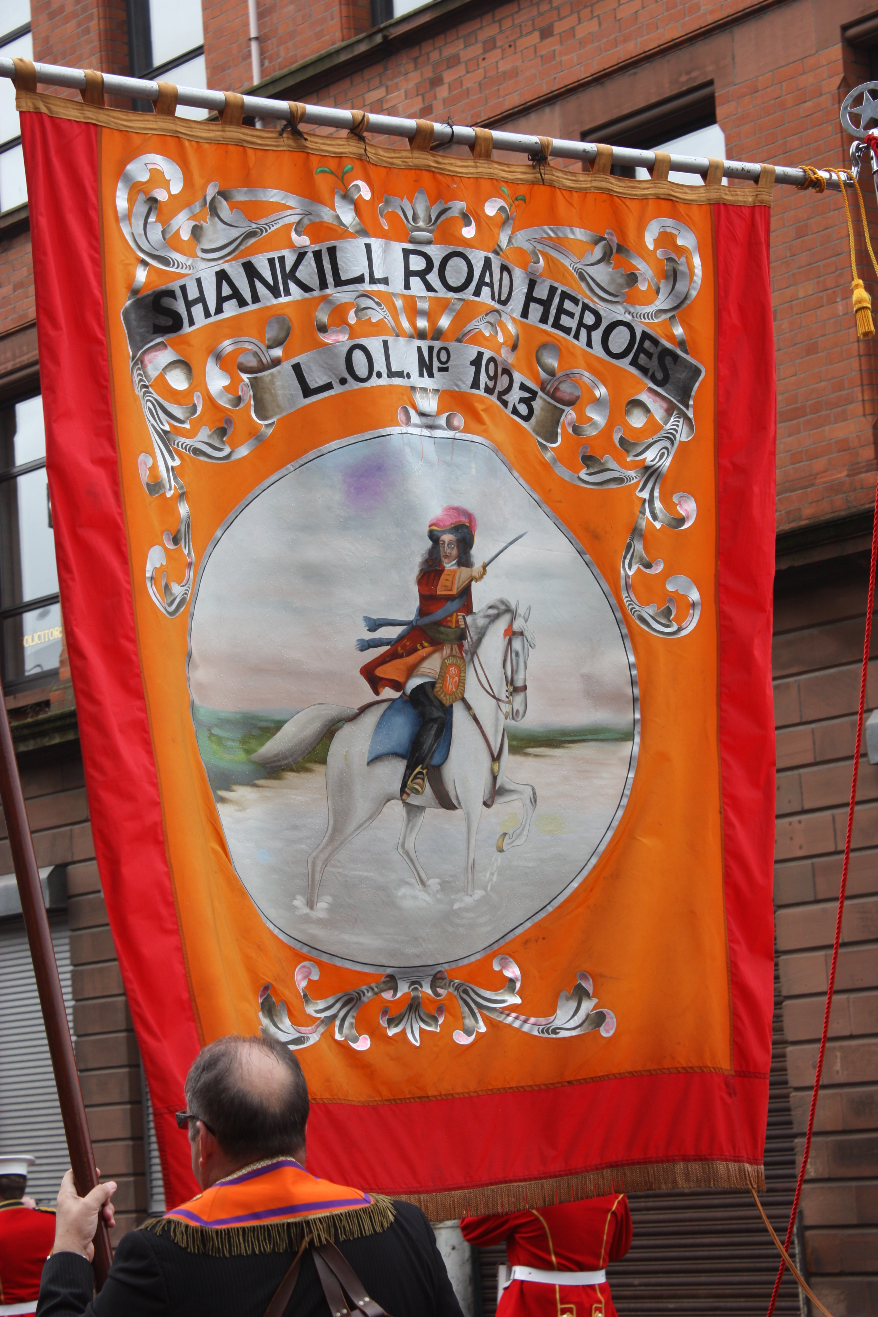 Banner, 12 July Orange Parades, Donegall Street, Belfast, Northern Ireland, July 2011